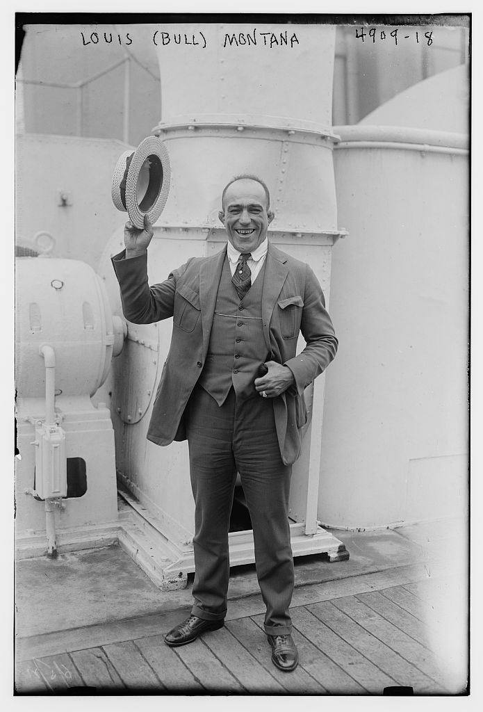 Bull Montana in 1919 with hat in hand